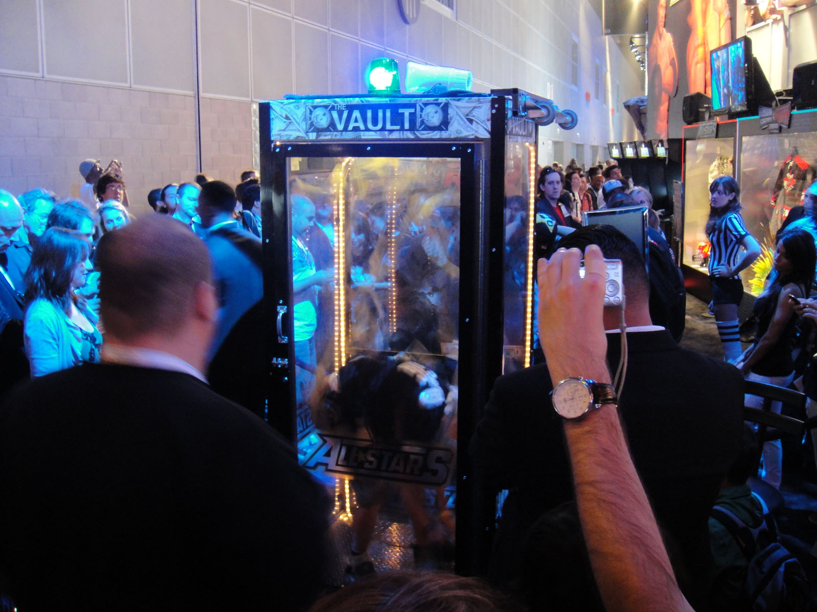 Money booth at the Electronic Entertainment Expo 2010. Original description: "E3 2010 Smackdown vs RAW 2011 Money Vault challenge"